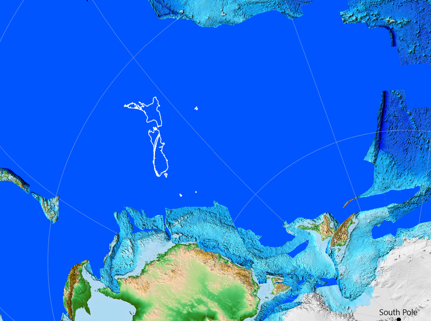 Zealandia and New Zealand 90 ma Gondwana, current NZ location in white.